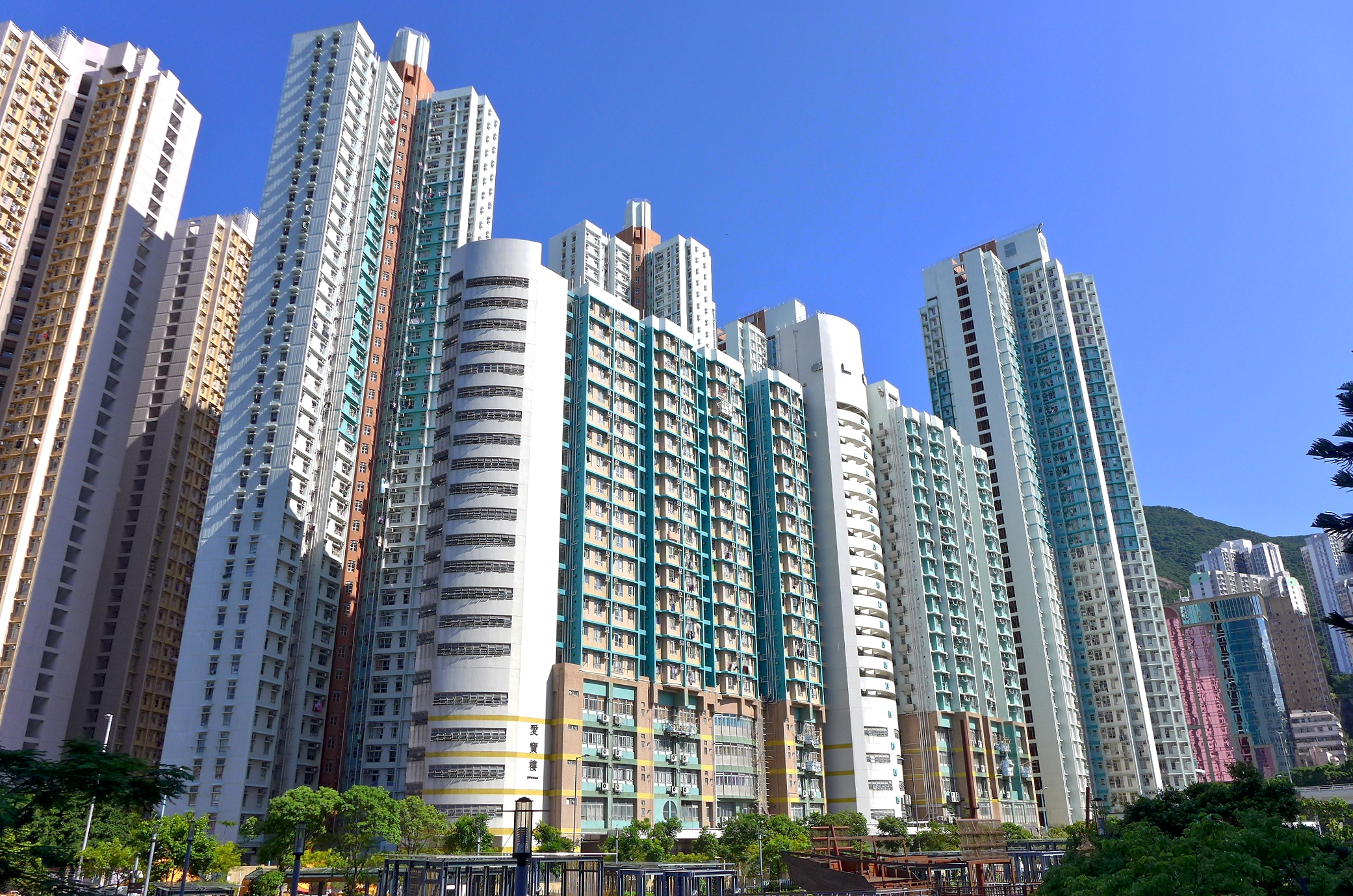 Tung To Court